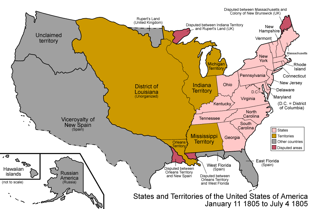 Map of the states and territories of the United States as it was from January 1805 to July 1805. On January 11 1805, Michigan Territory was split from Indiana Territory. On July 4 1805, the District of Louisiana was organized as Louisiana Territory.